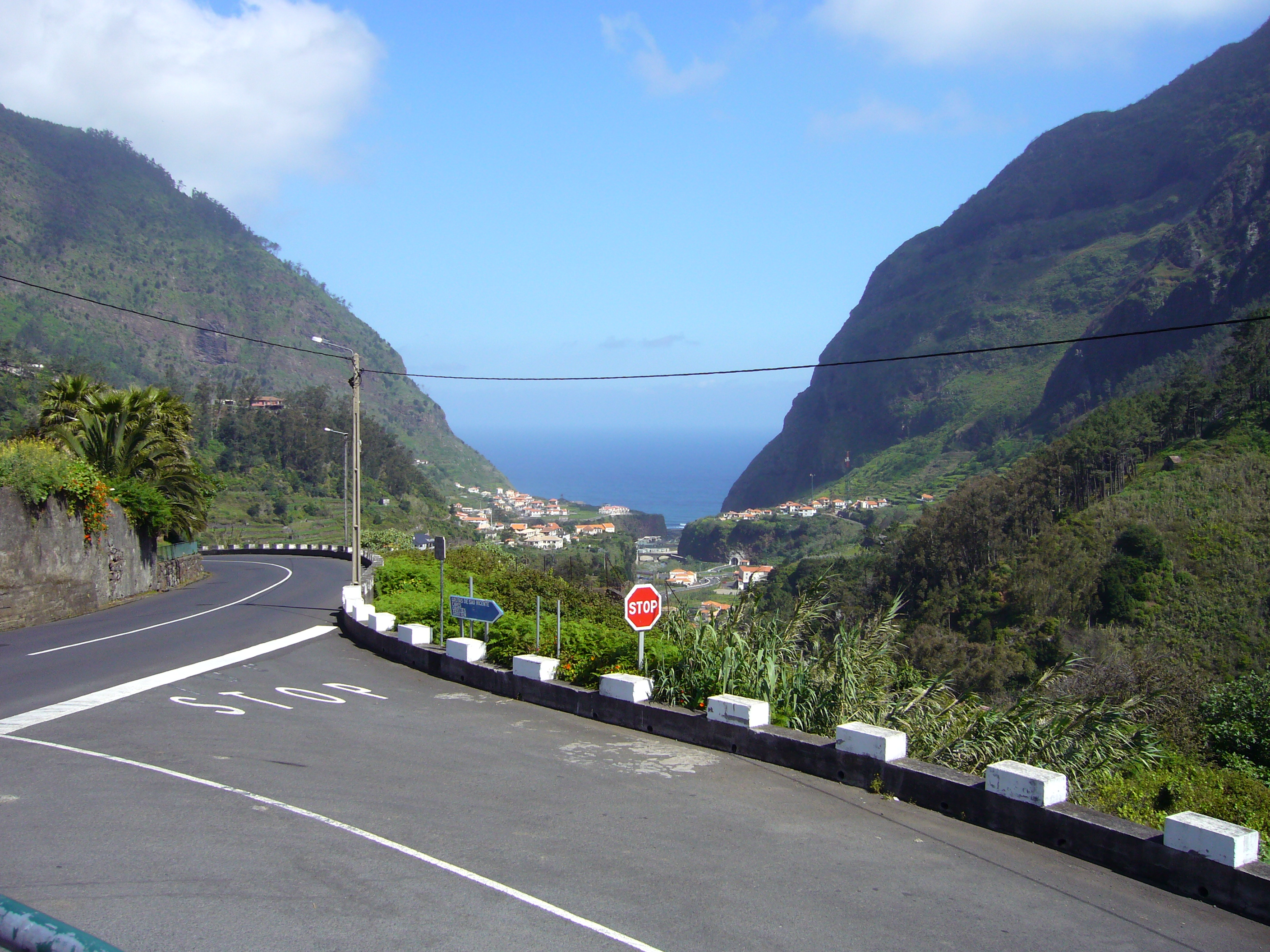 The road towards São Vicente (Madeira)